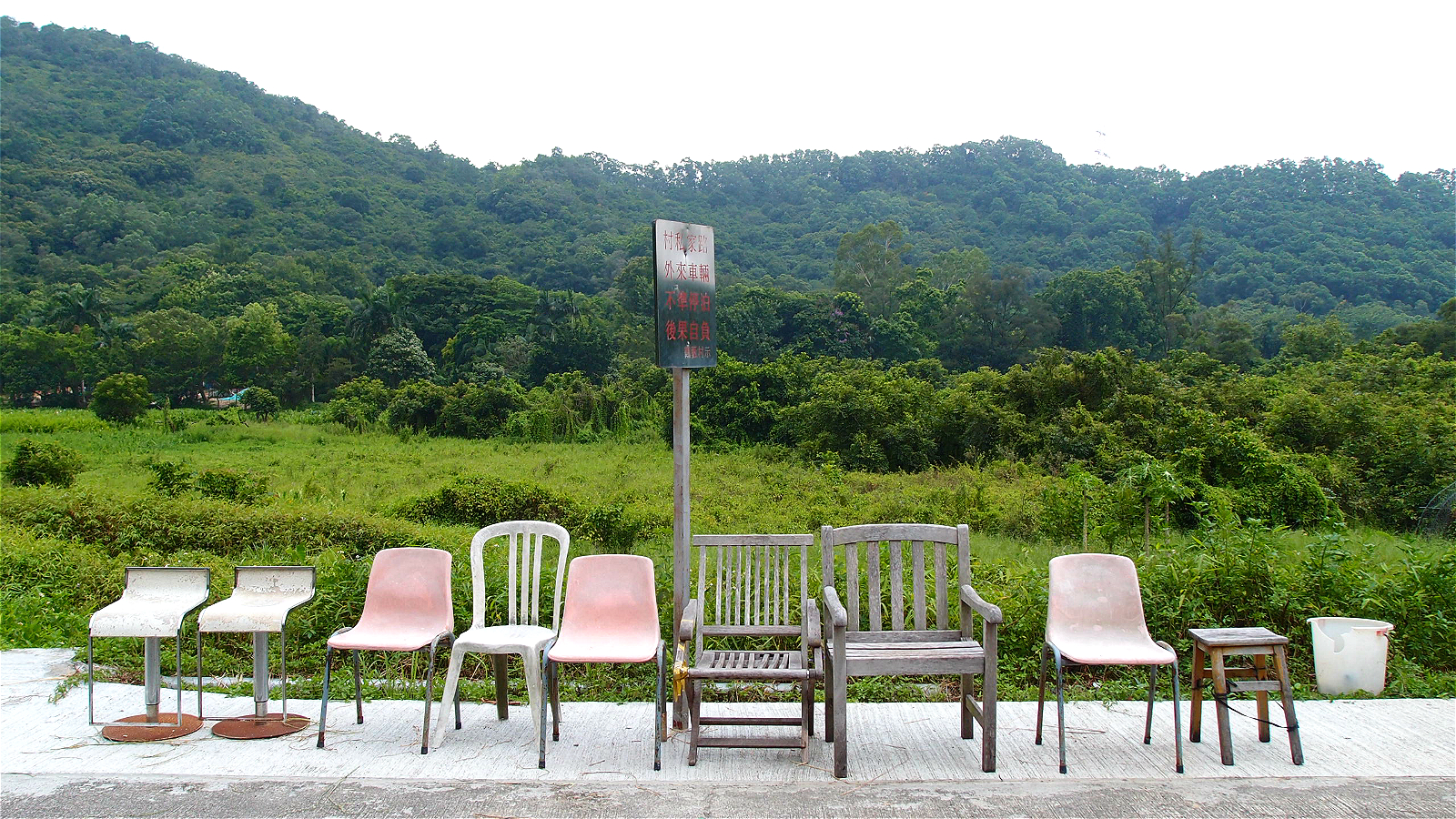 鶴藪村小巴總站的站牌已倒塌多年，只剩一行椅子標示小巴站的位置。